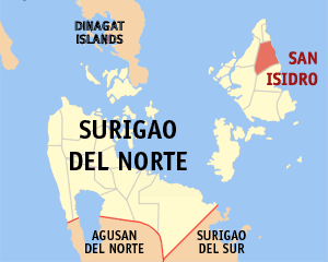 Map of the Surigao del Norte showing the location of San Isidro